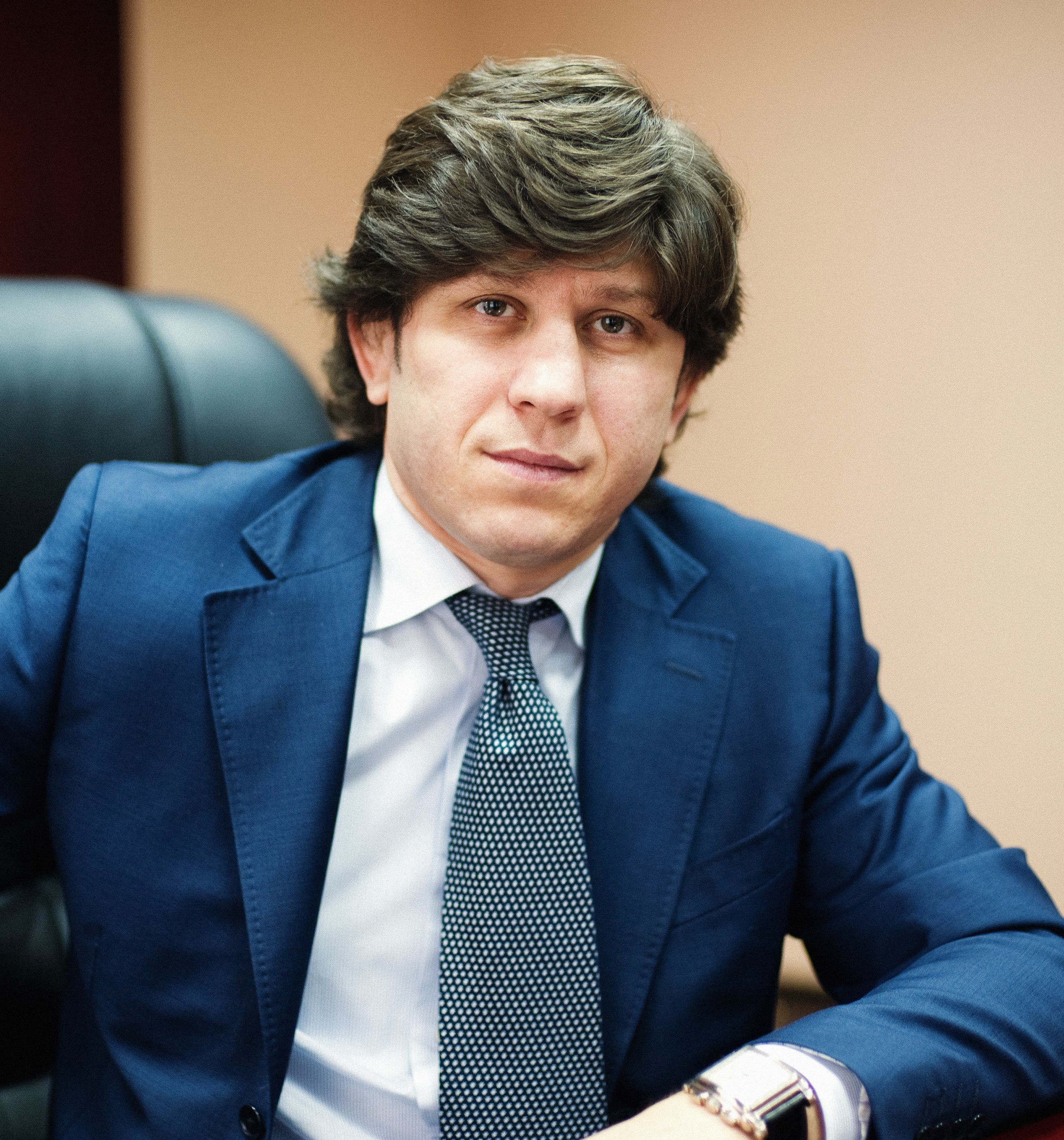 Olympic Champion, People's Deputy of Verkchovna Rada of Ukraine, member of Party of Regions Elbrus Tedeyev in the workplace in the parliamentary reception.